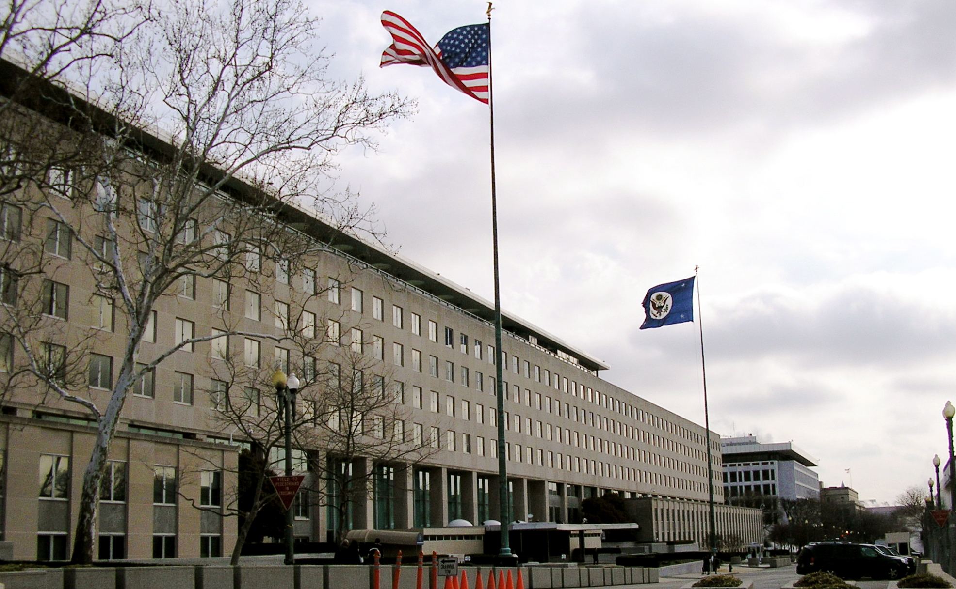 The Harry S Truman Building in Washington DC. Headquarters of the US Department of State.